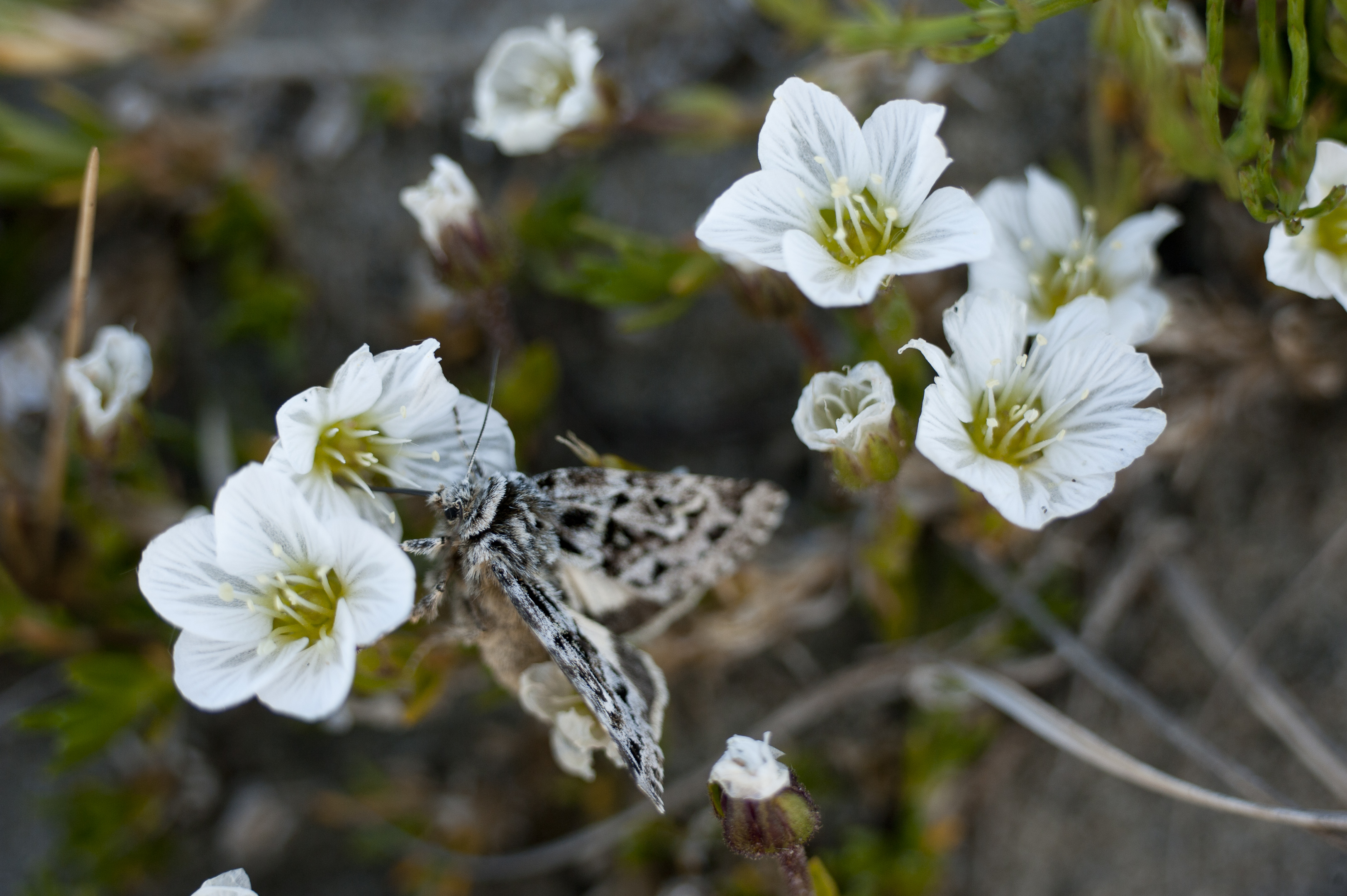 (NPS Photo by Neal Herbert)